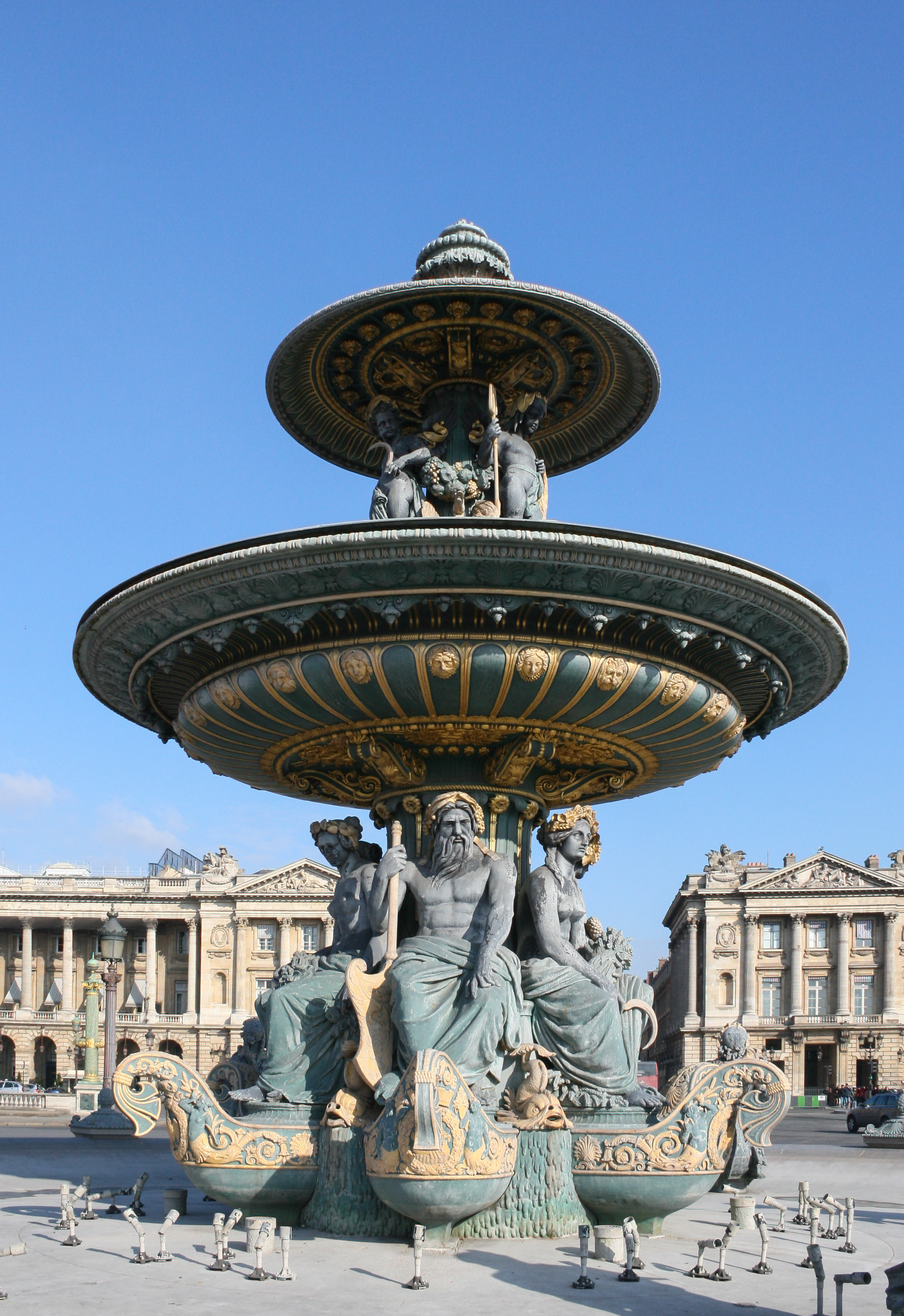 Fountain of the Concorde Square, Paris, France